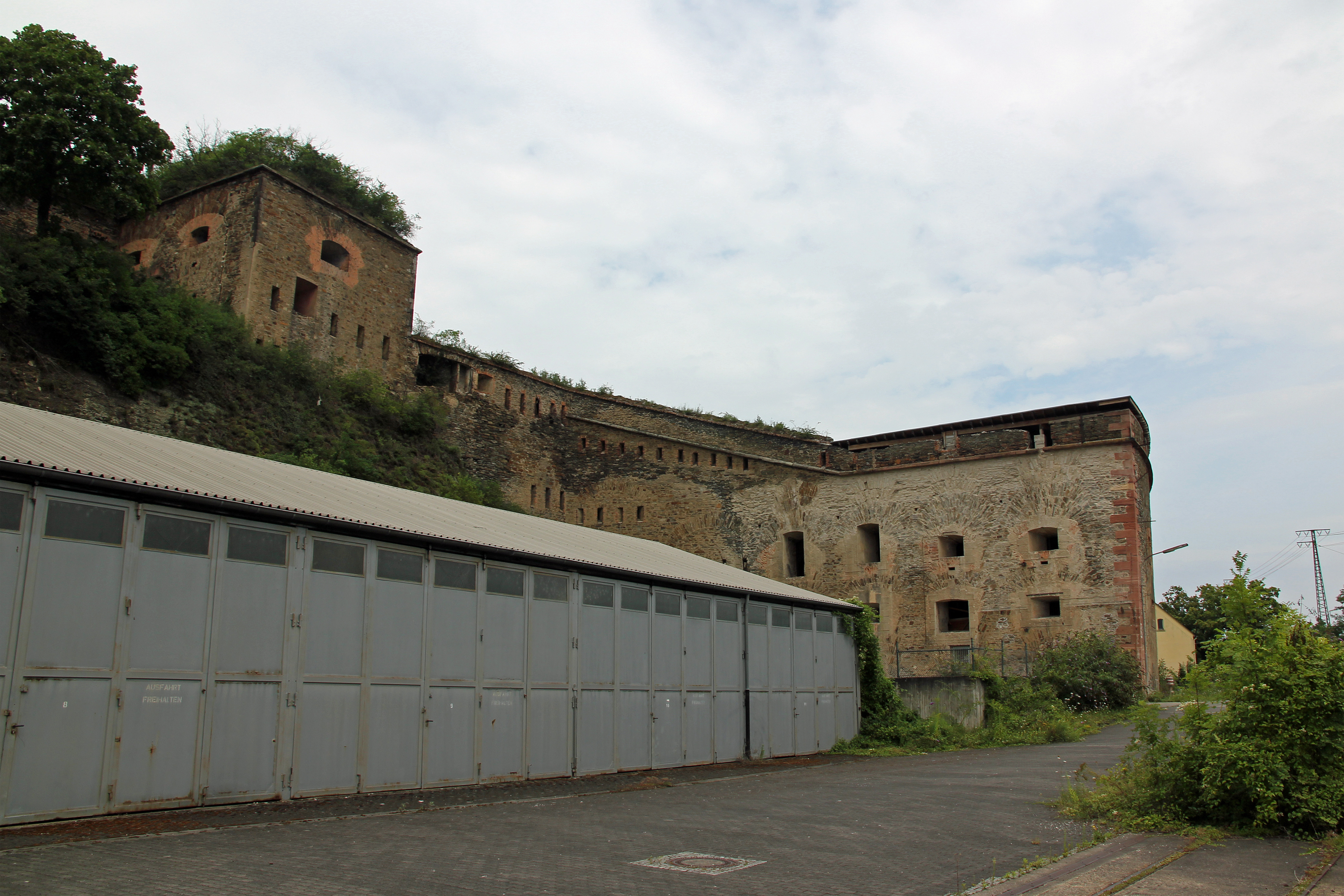 Feste Kaiser Franz in Koblenz